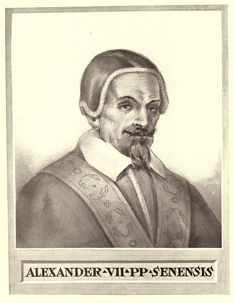 This illustration is from The Lives and Times of the Popes by Chevalier Artaud de Montor, New York: The Catholic Publication Society of America, 1911. It was originally published in 1842.